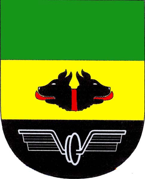 Municipal coat of arms of Lužná village, Rakovník District, Czech Republic.